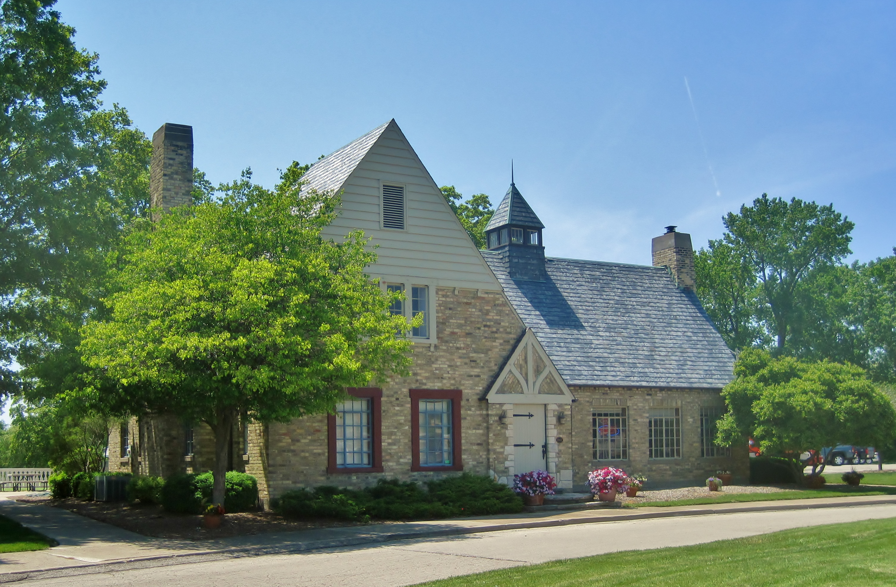 Washington Park Clubhouse in Kenosha, Wisconsin, United States